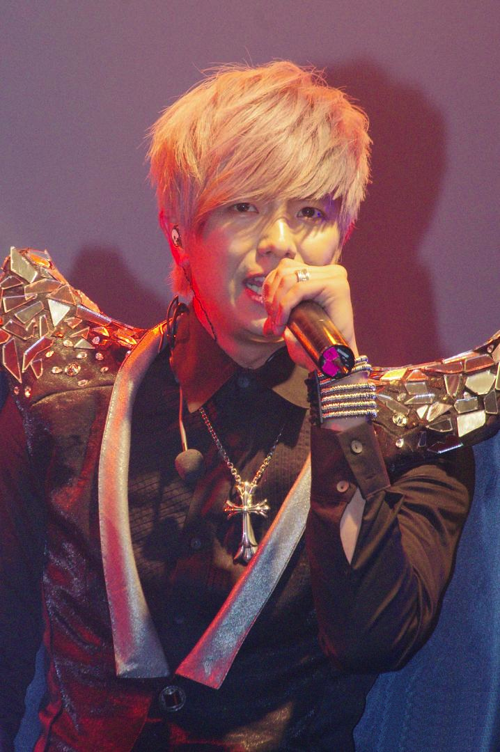 This photo was taken by myself on November 28, 2012 at Alien Huang's "G·host" Taipei Concert.